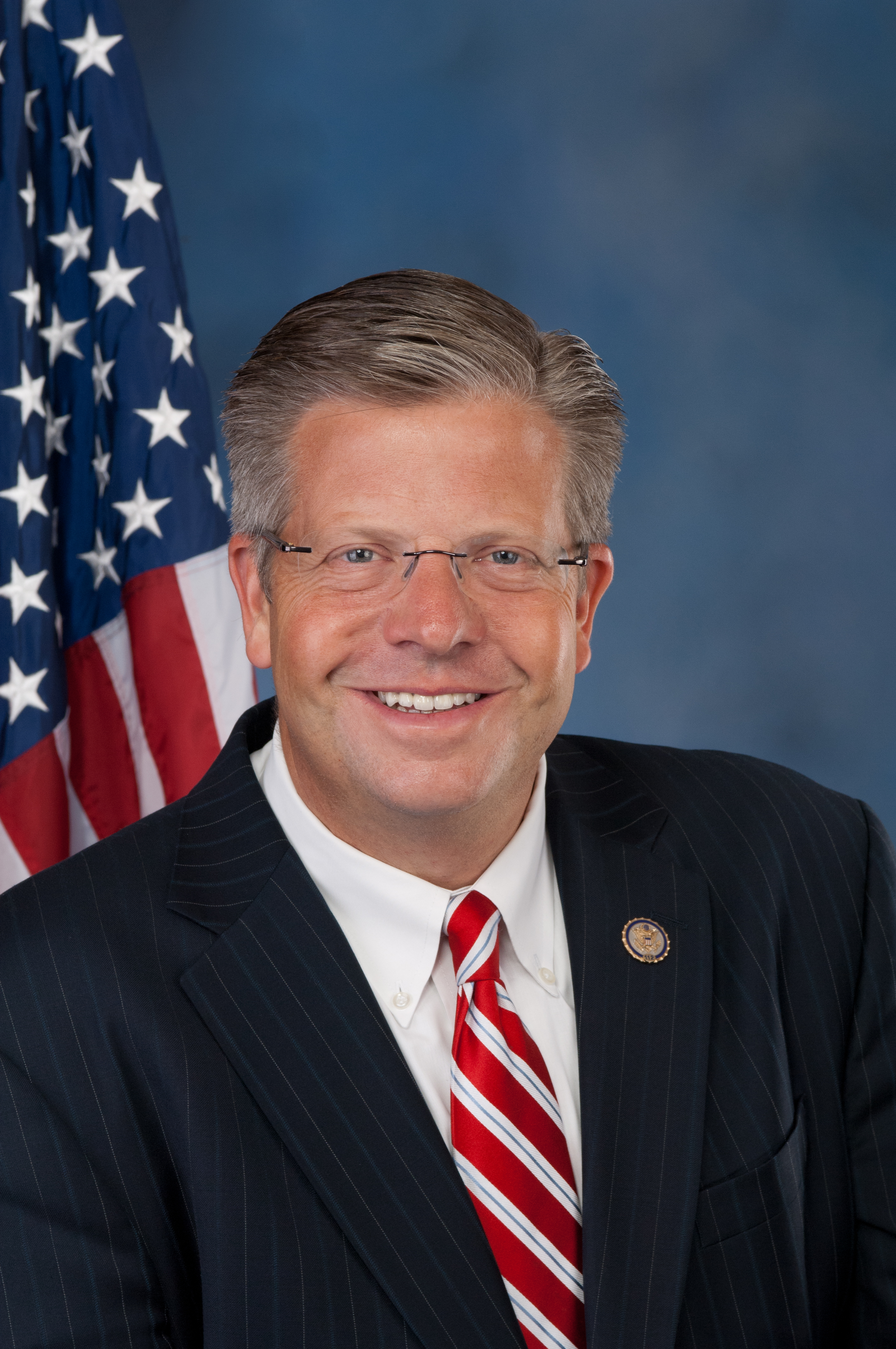 Author: US Government